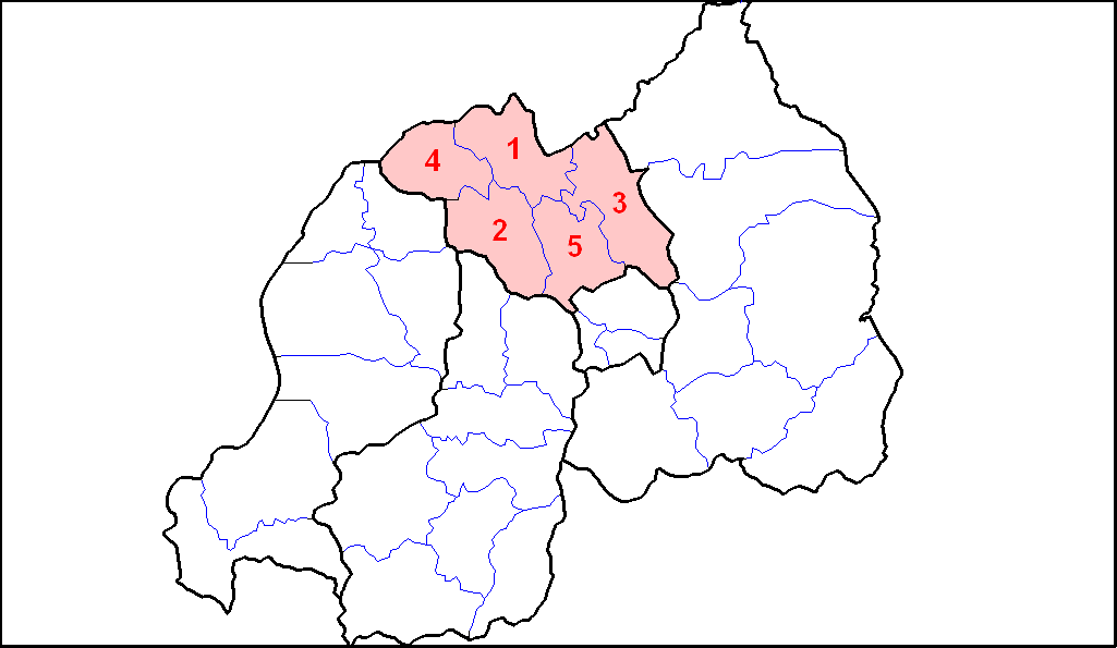 North Province, Rwanda with numbered districts